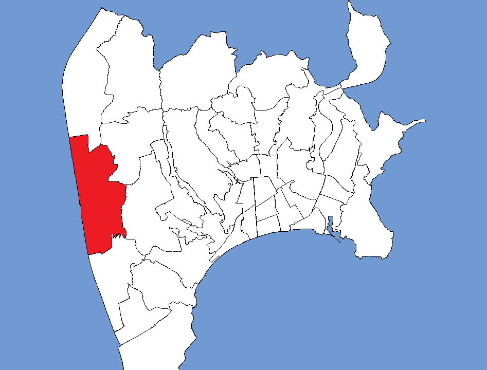 Location of the neighbourhood Saint Isidore in Nice